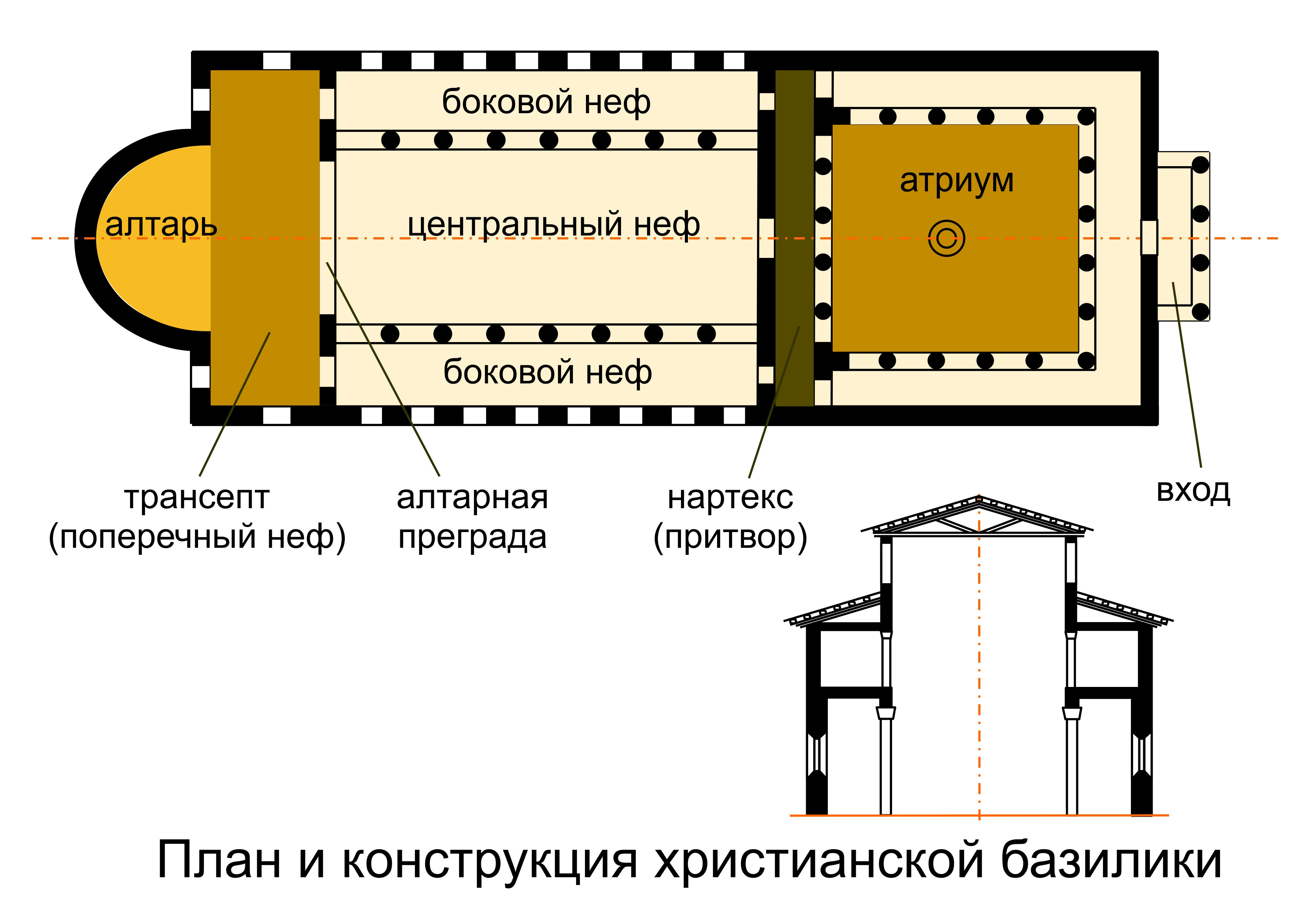 Christian basilica.